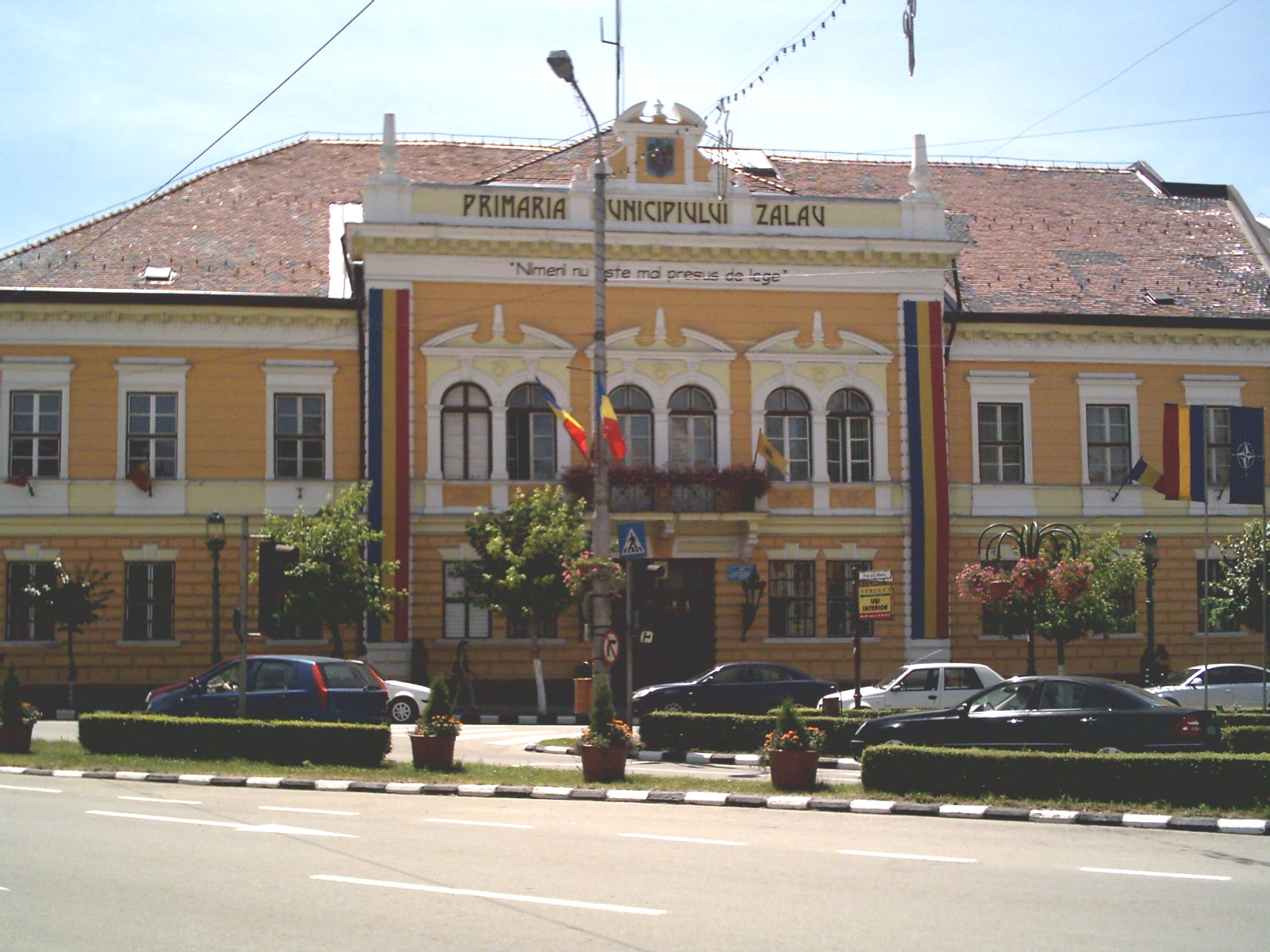 Zalău City Hall. The historical building was built în 1889 and it hosted Sălaj County Prefecture during the interbelic period.